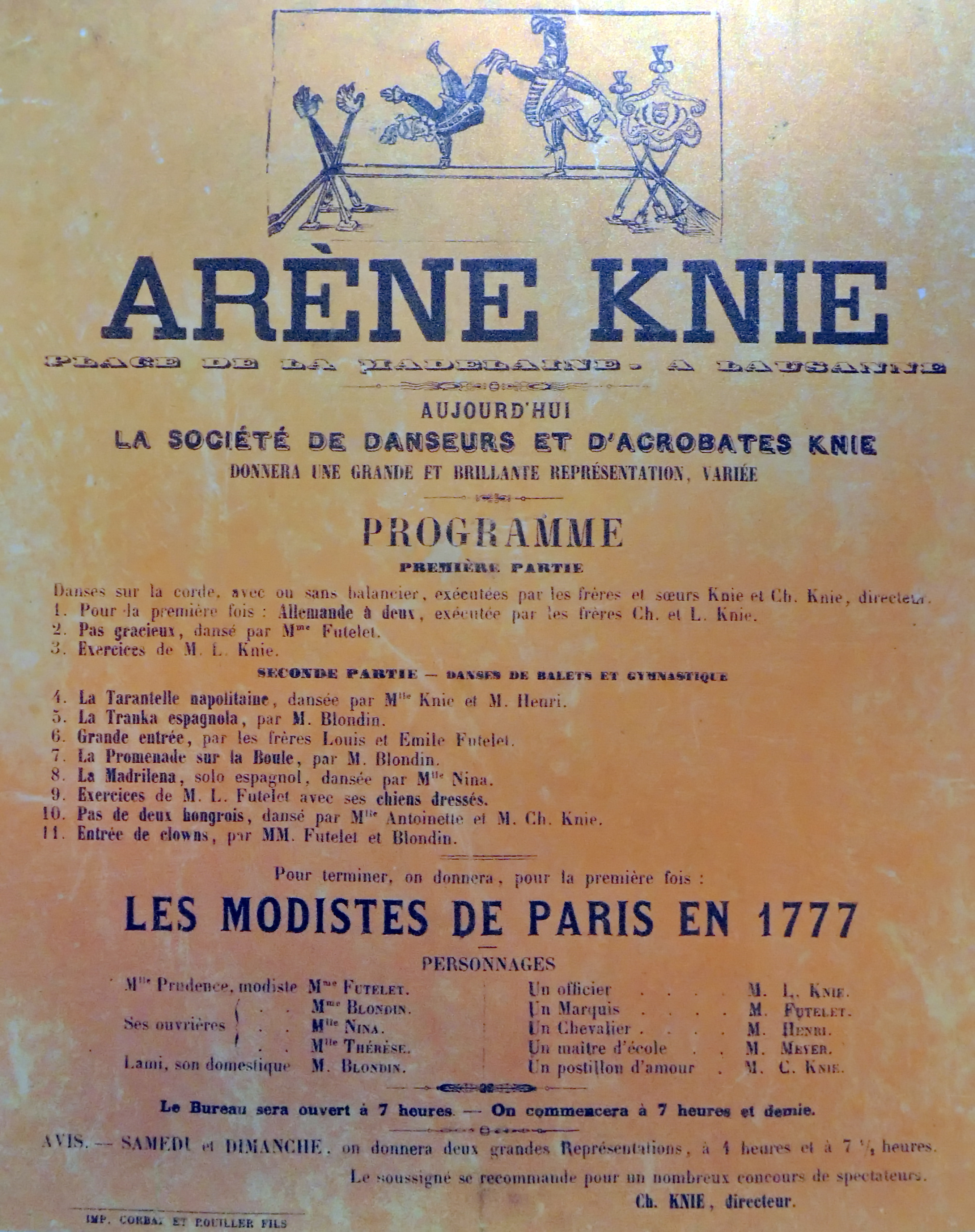 Collection of the Stadtmuseum) in Rapperswil (Switzerland)